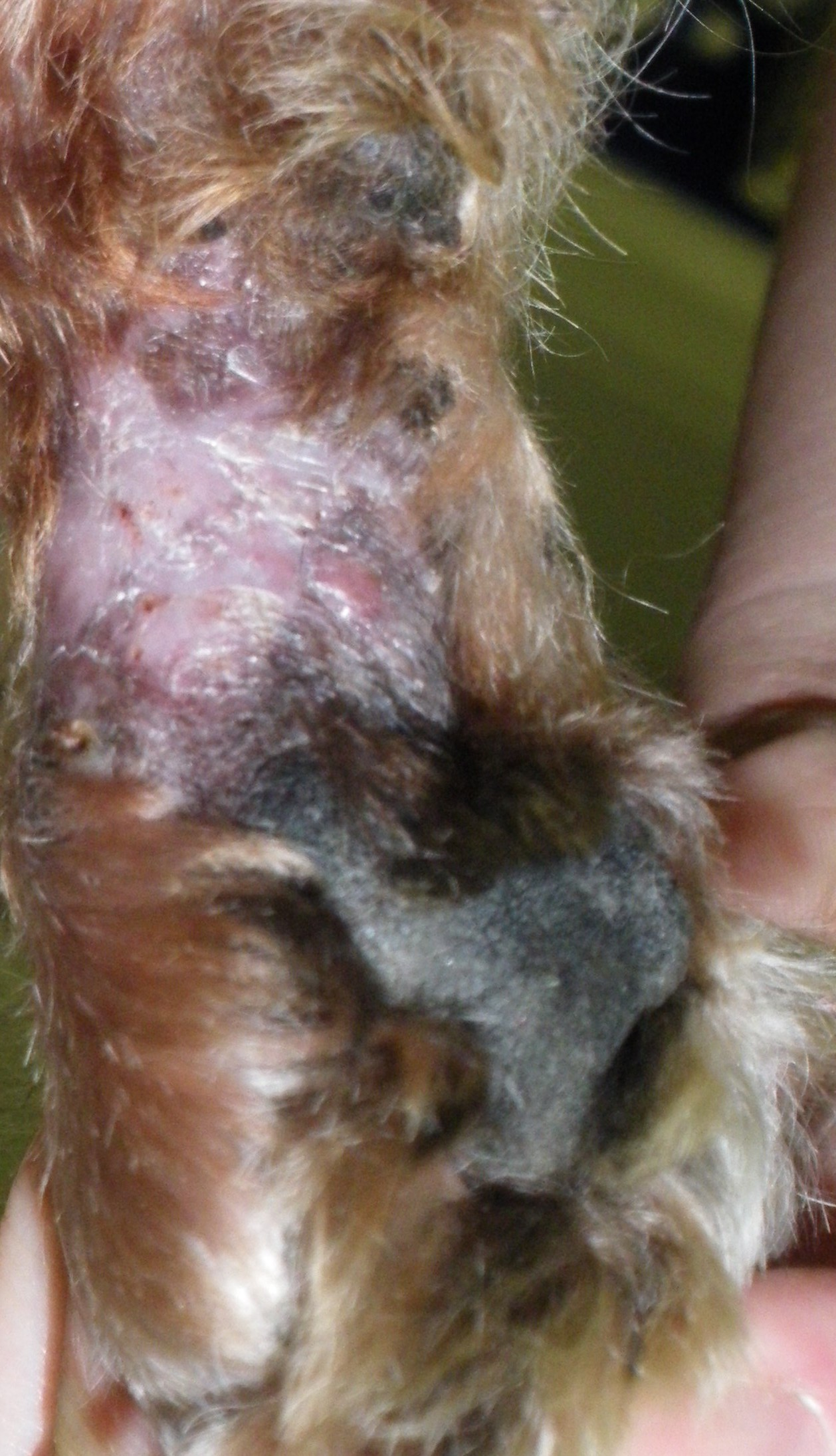 skin graft on palmar surface of metacarpus in a dog 3 weeks after transplantation